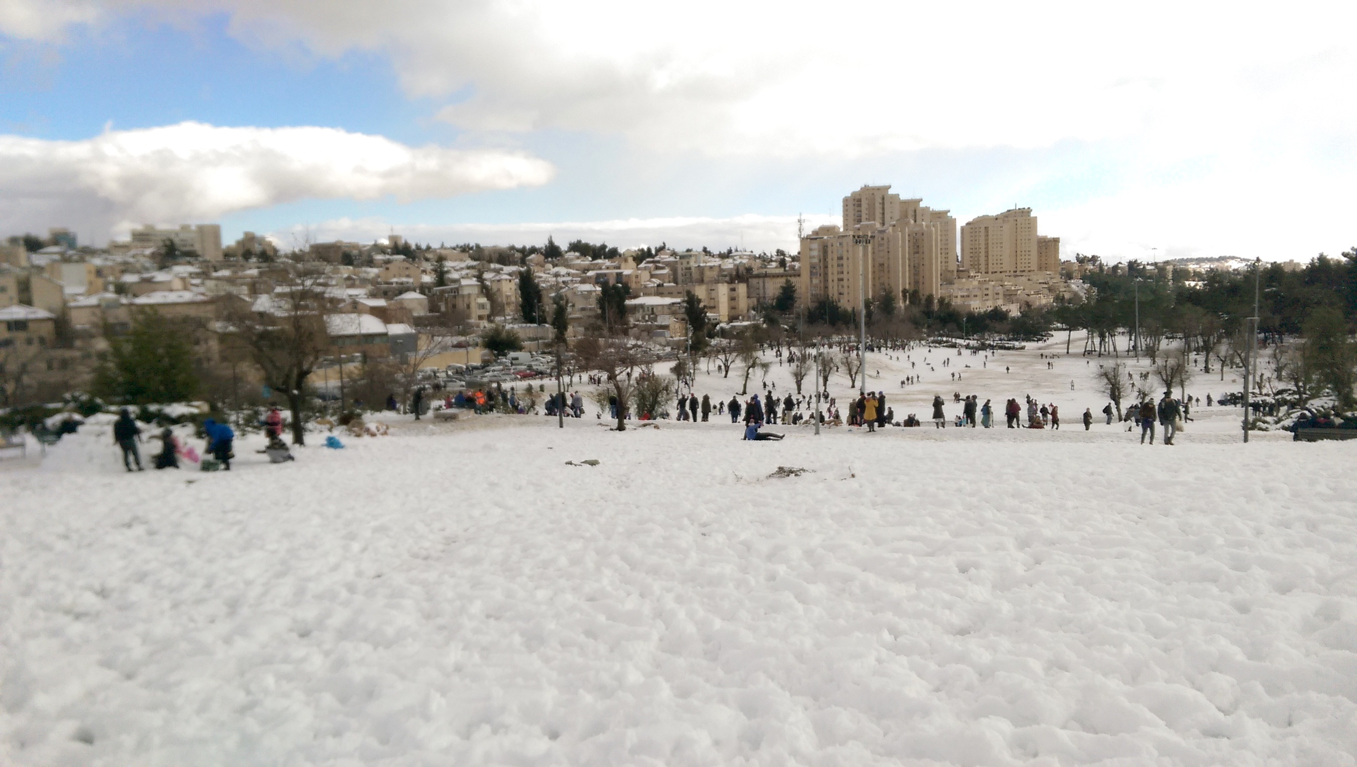 View of Nachlaot and Kiryat Wolfson under the snow, from Sacher Park